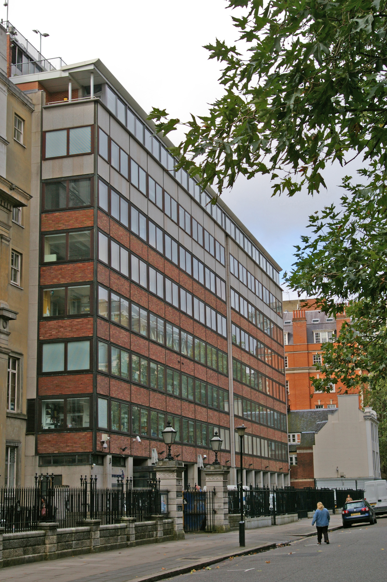 London Research Institute, Lincoln's Inn Fields, London. Photo by David Bacon for Cancer Research UK